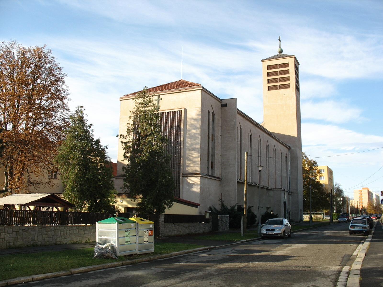 St. Adalbert church in Čtyři Dvory, part of České Budějovice, Czech Republic